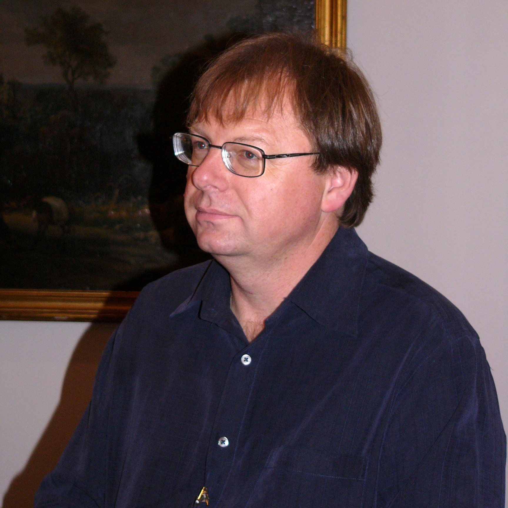 Czech film producer, director and screenplay writer Miloslav Šmídmajer.